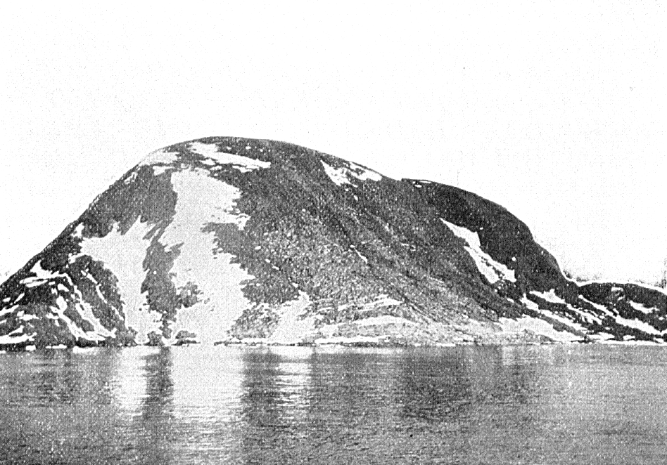 Björlingø, the southeastern Carey Island, Baffin Bay.